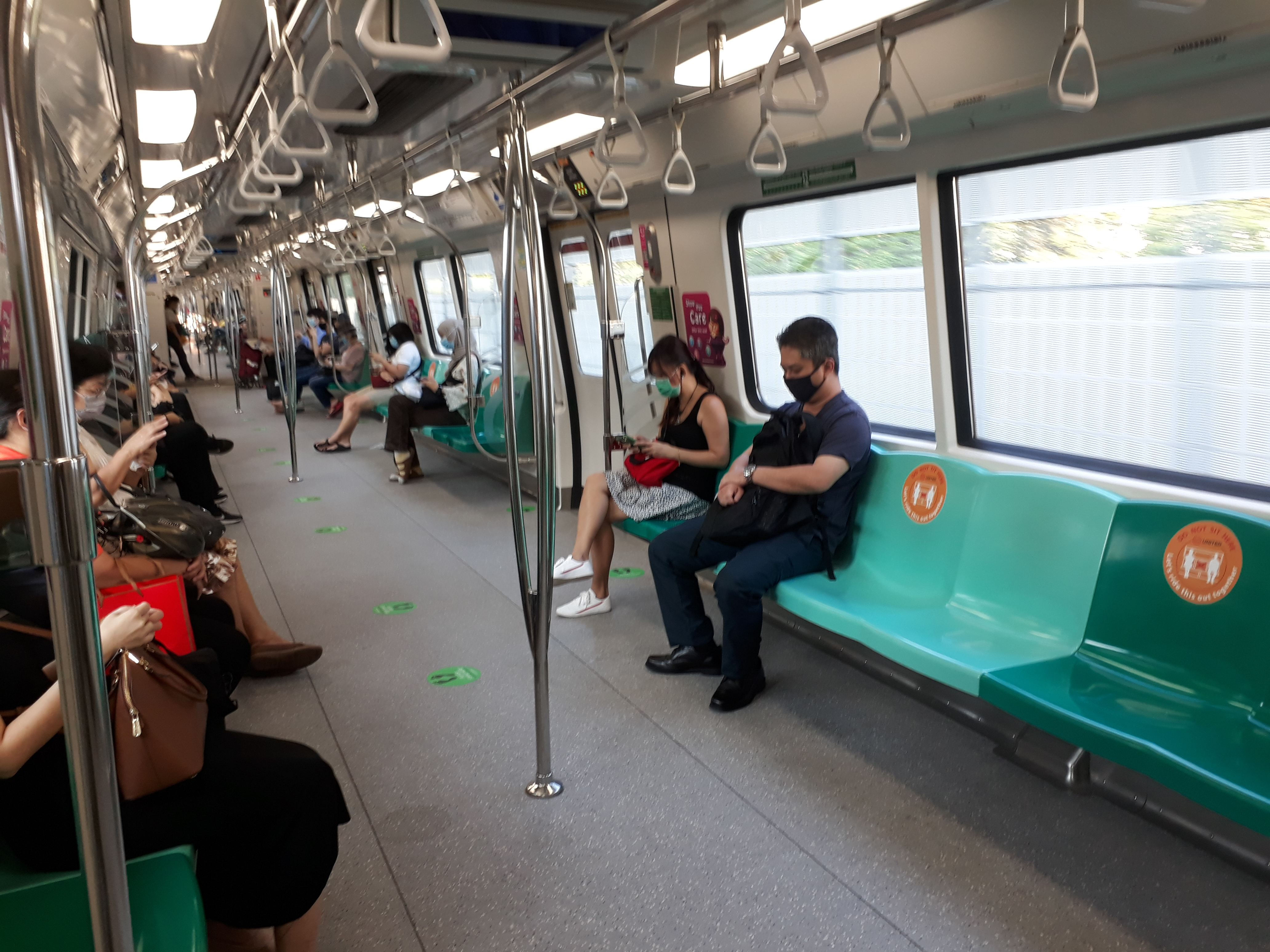 Social distancing markers in C151b train